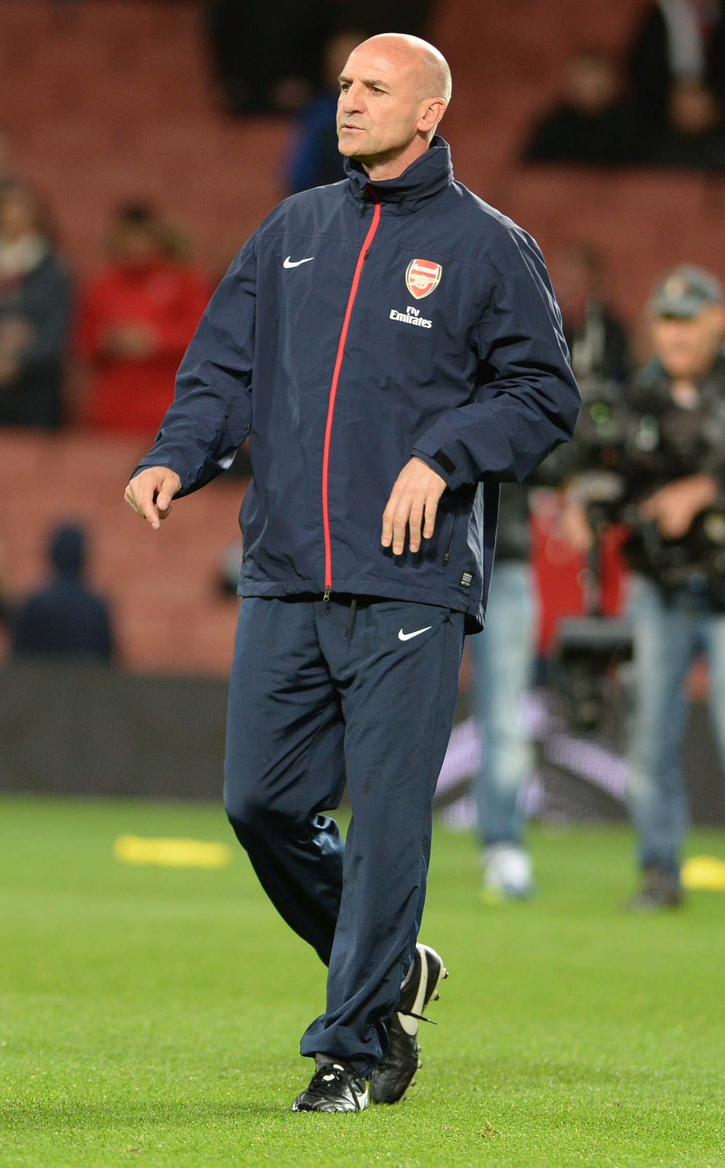 Arsenal Assistant Manager Steve Bould watches on as the first team warms up